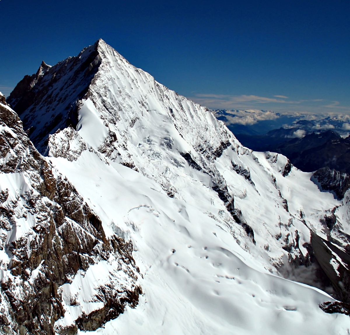 Weisshorn - south face from the E ridge of Zinalrothorn Walliser Alps.